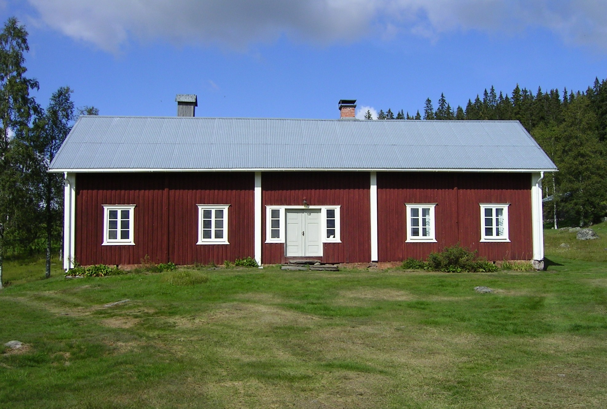 Juhola, old Finn-farm in Värmland, Sweden